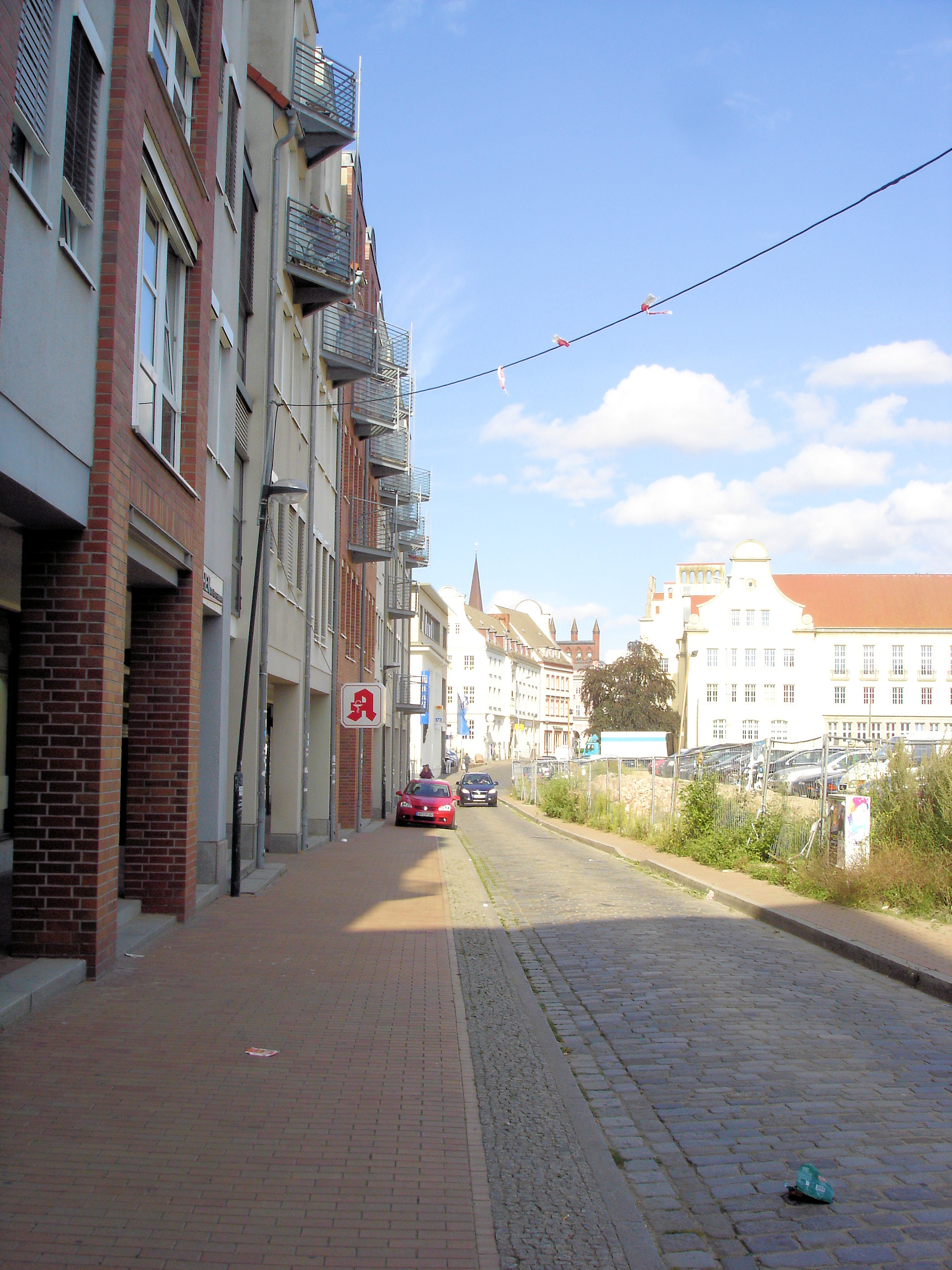 Street in the historic city of Rostock